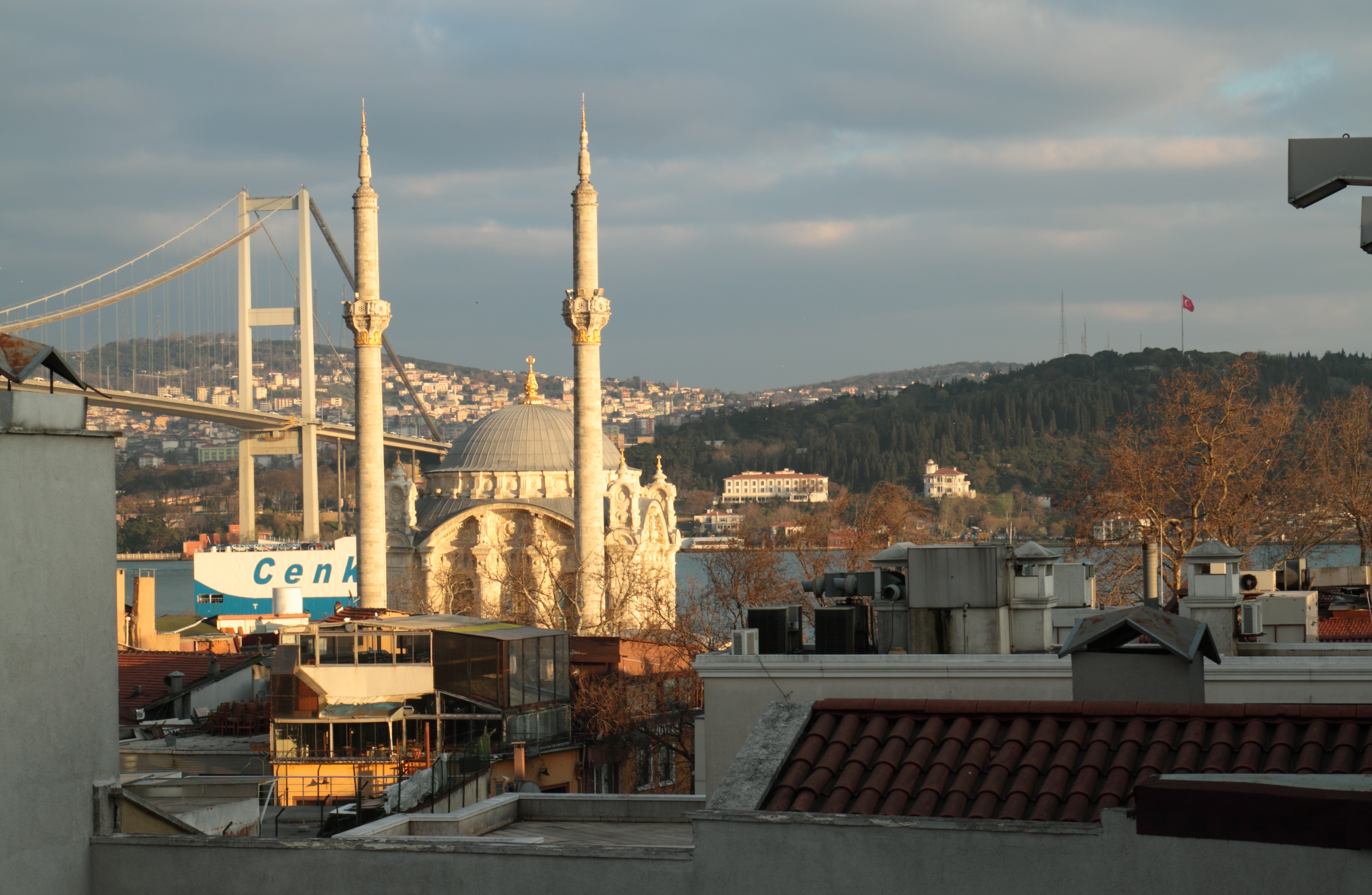 Ortaköy, Istanbul: view on mosque and Bosphorus bridge (from private house)